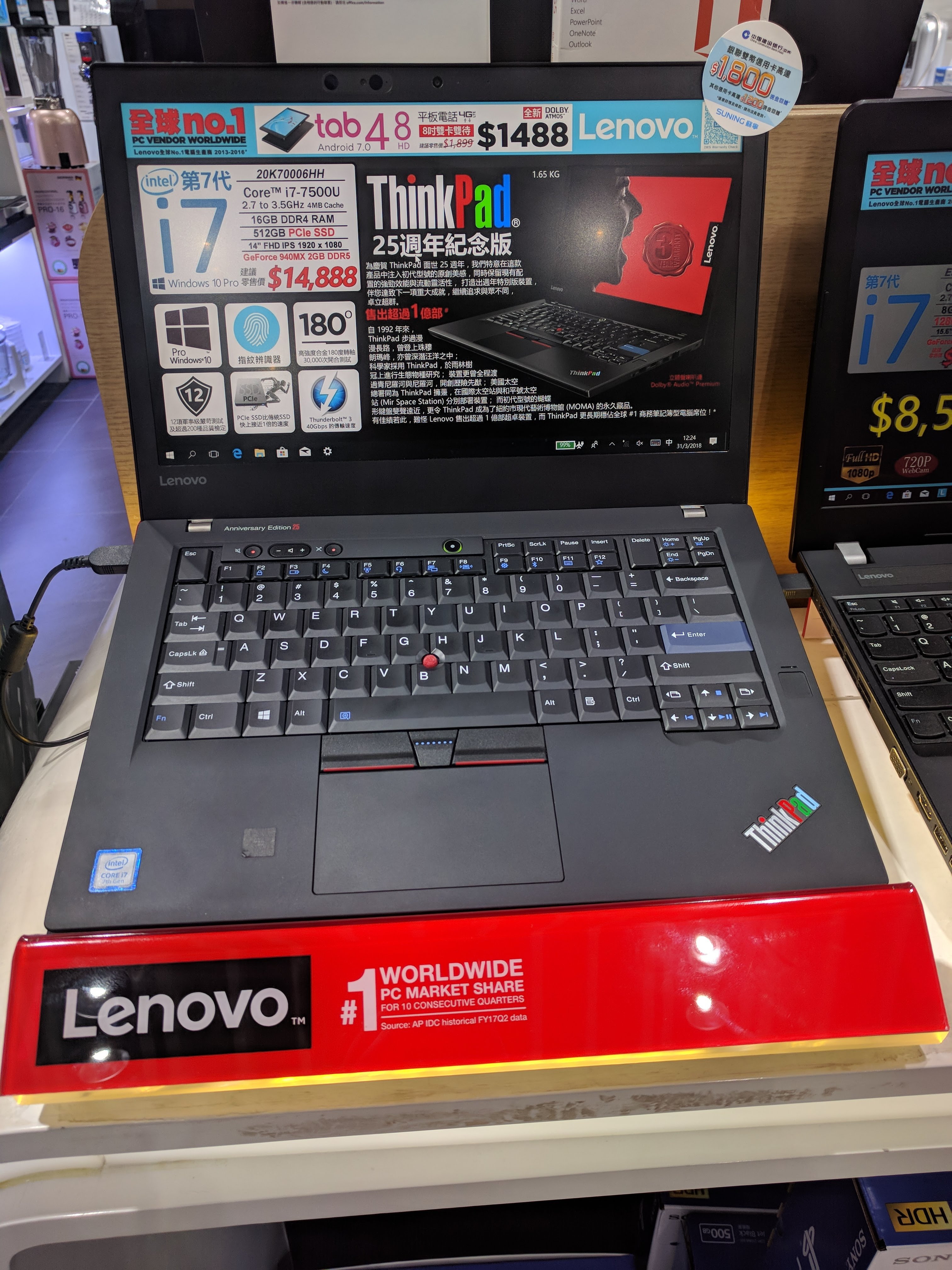 25th anniversary Retro ThinkPad on display in Hong Kong